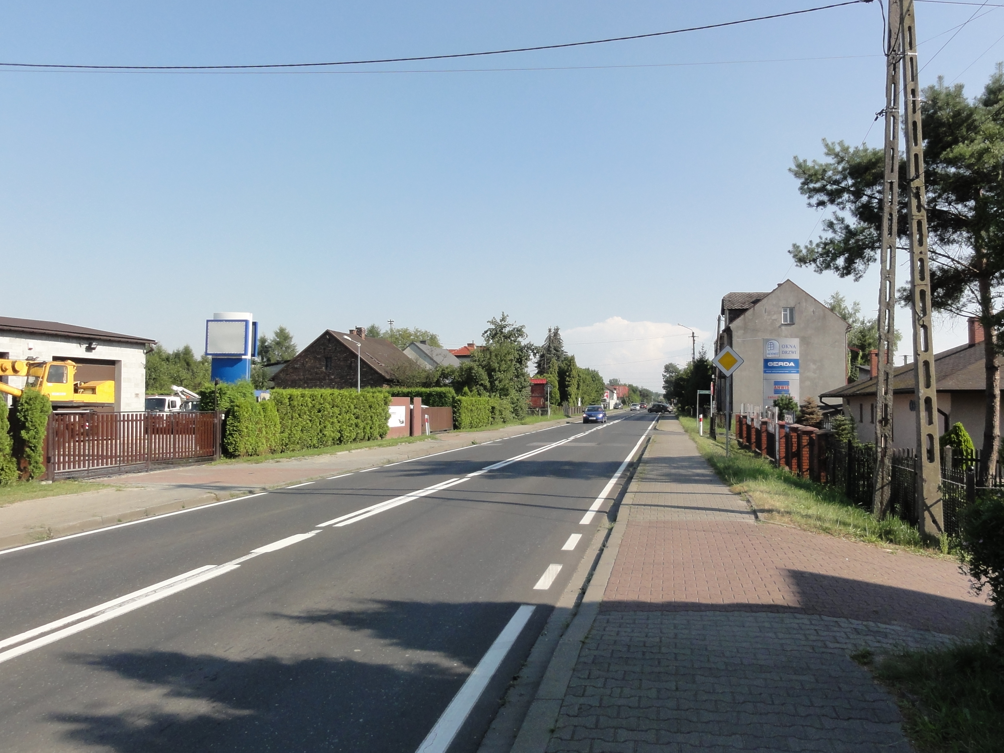 DK 44 in Babice